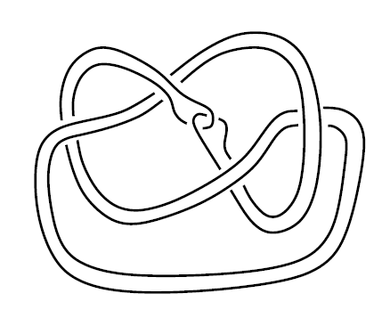 The Whitehead double of the figure-8. Author: Ryan Budney